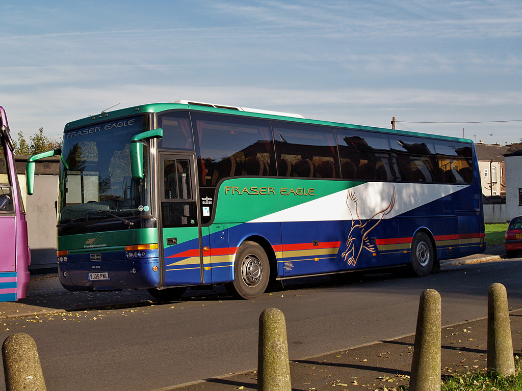 Fraser Eagle Management Services Ltd (trading as Fraser Eagle Coaching) YJ05 PWL, VDL Bus DE40XSSB4000 built 2005 with a Van Hool Alizée T9 C49Ft body stands on Starkey Street, Heywood. Friday 3rd November 2006